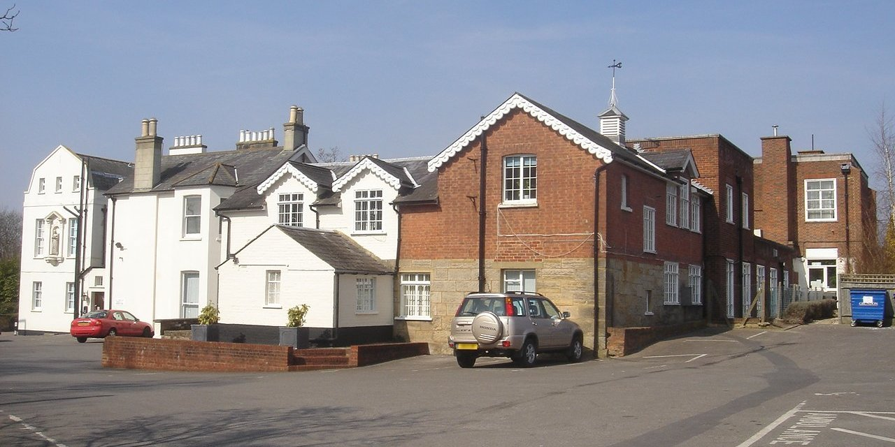 Worth Training Centre, Balcombe Road, Pound Hill, Crawley, England. A late 18th-century house with 19th- and 20th-century extensions. Listed at Grade II by English Heritage (IoE code 363326)